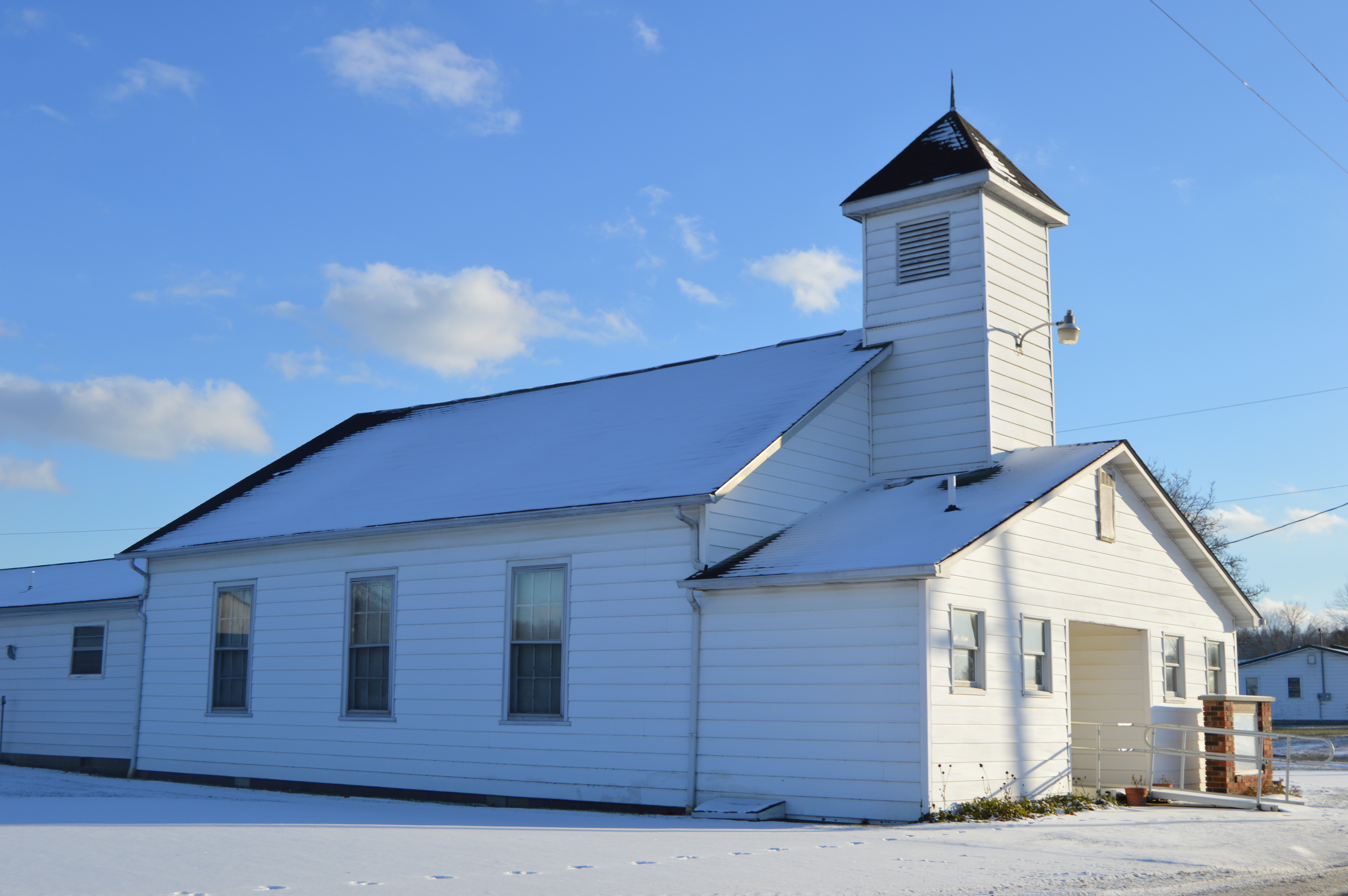 Front and northern side of the Northup Missionary Baptist Church, located on Lincoln Pike at Northup in Green Township, Gallia County, Ohio, United States.